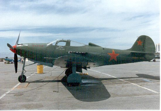 Bell P-39 (Russian)